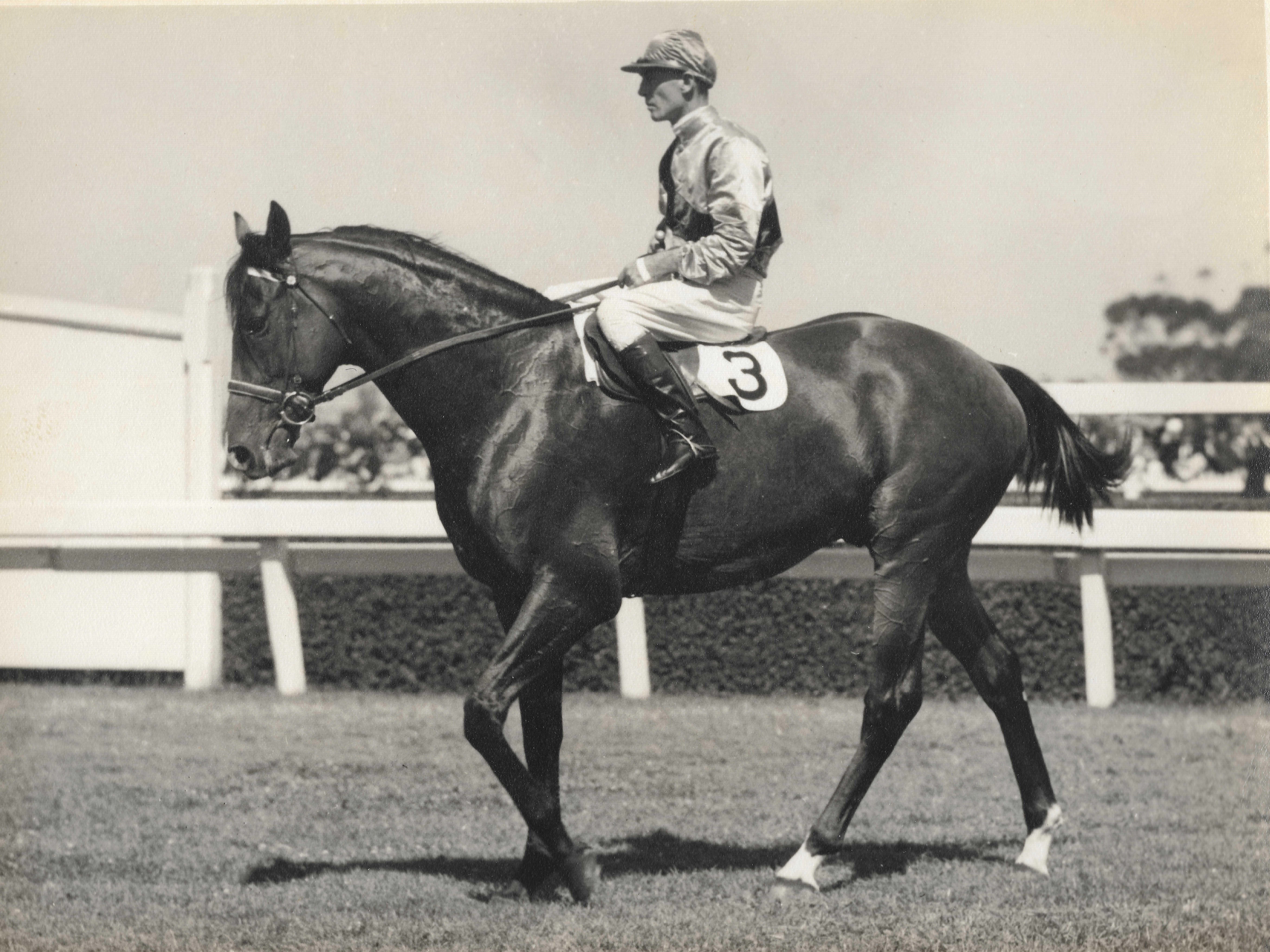 High resolution scan from original photo